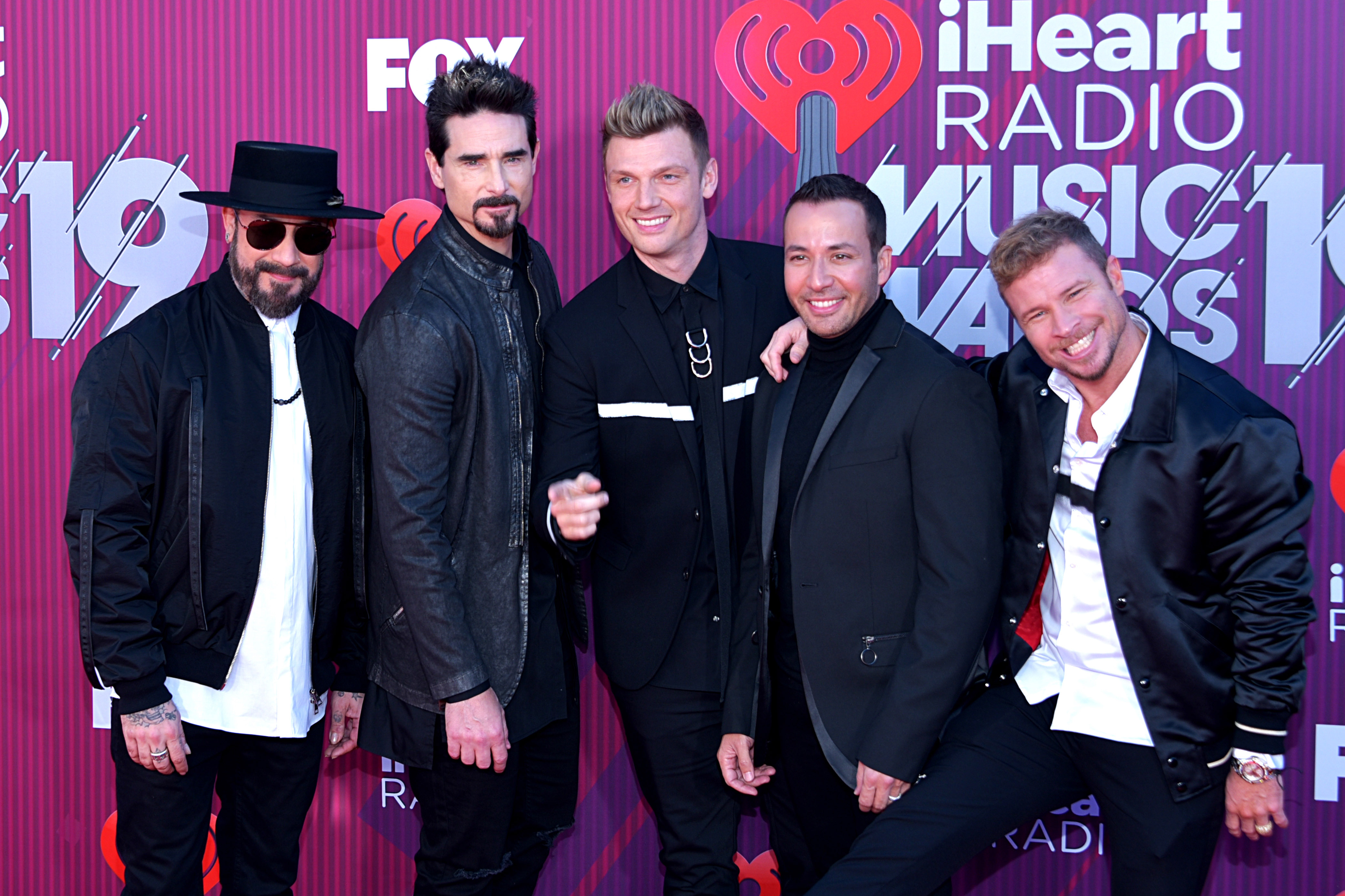 Backstreet Boys at the 2019 iHeartRadio Music Awards in Los Angeles California - Photo by Glenn Francis of